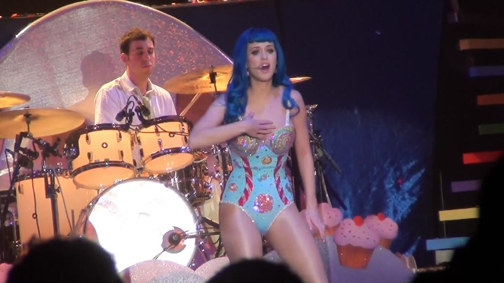 Performance by Katy Perry for the song "Firework" in her world tour California Dreams Tour.